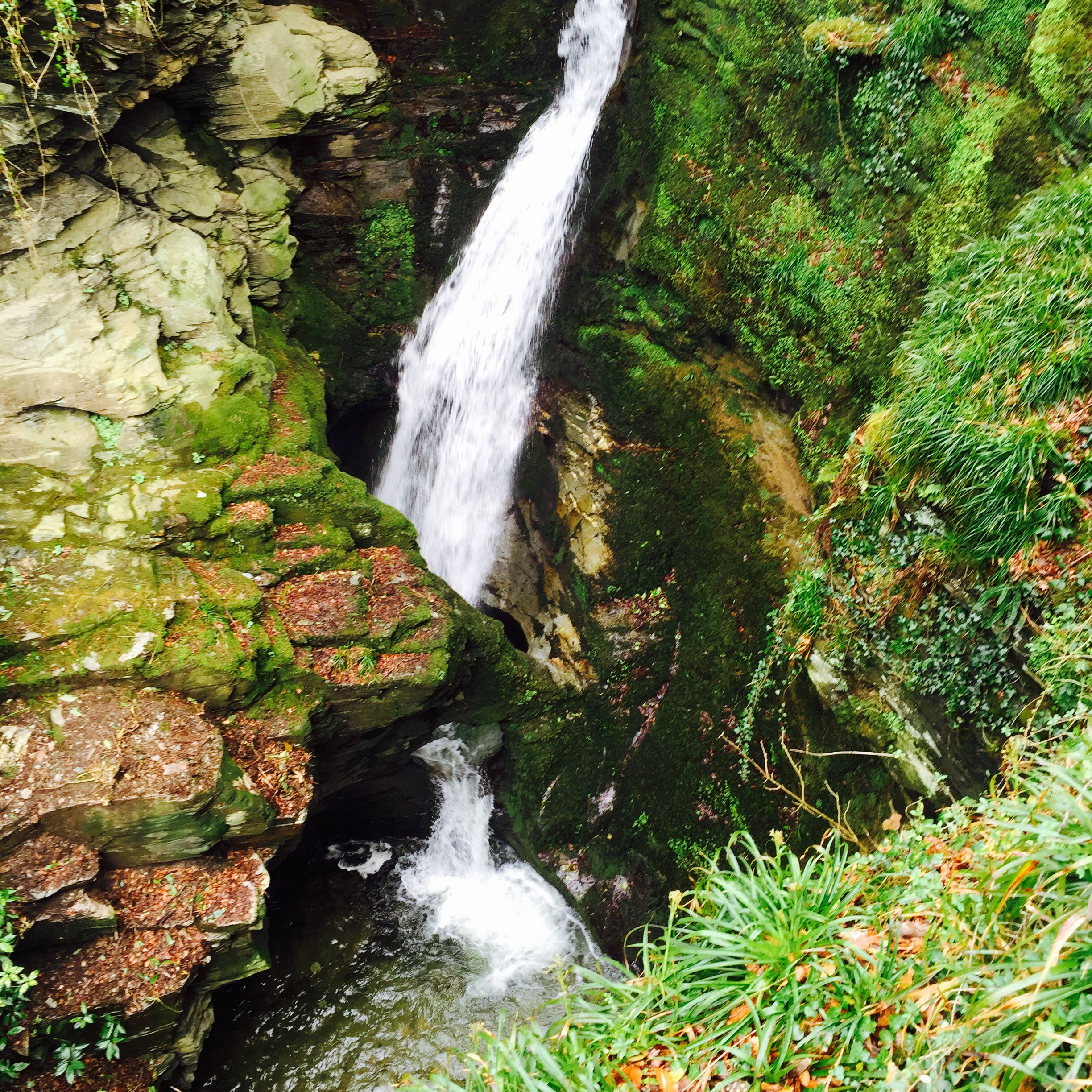 This view of the waterfall is from the Woodland Walk (opened 25 March 2016) and which offers previously unavailable views of the falls.